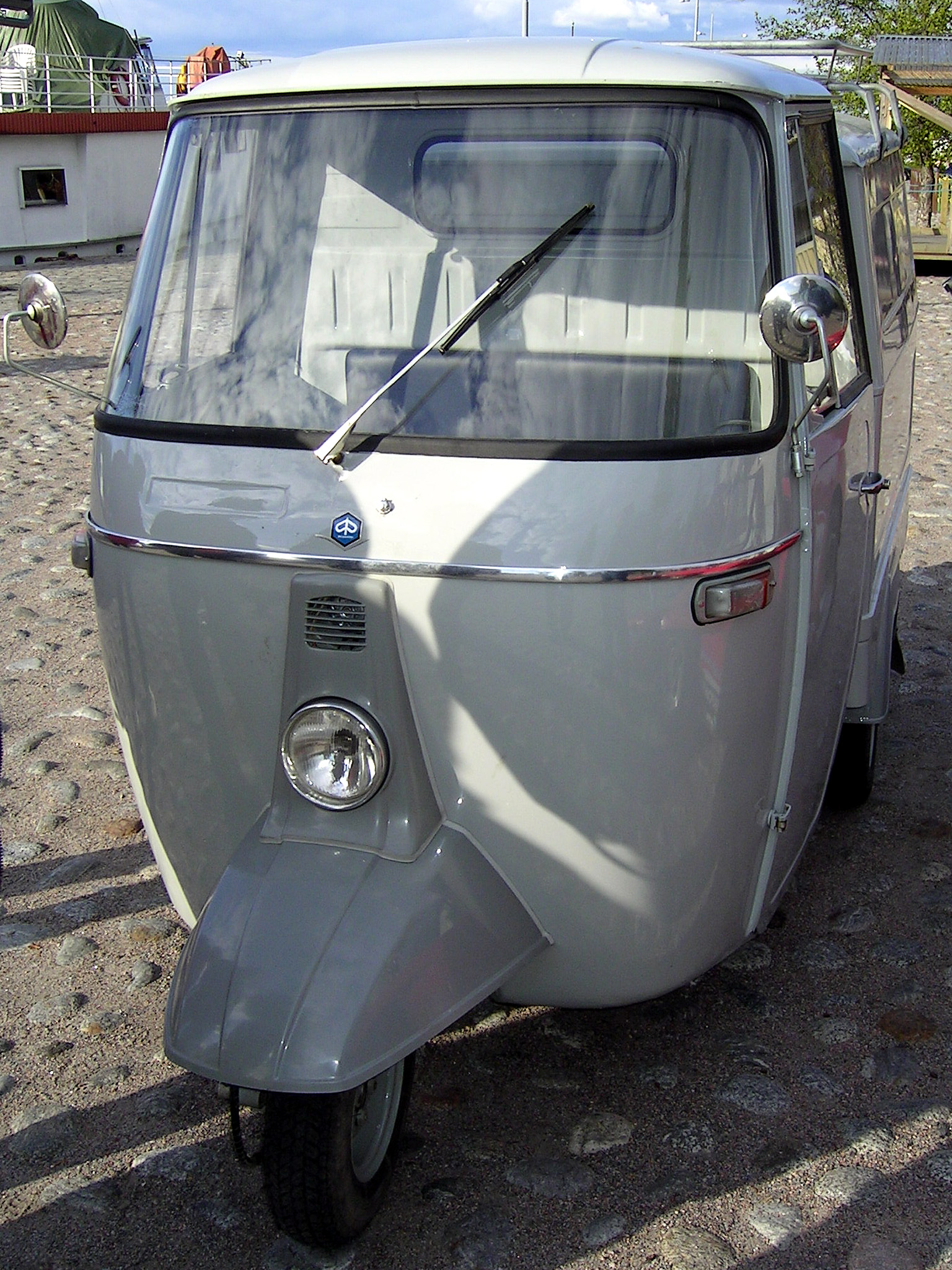 Piaggio's Ape (aka Vespa Commercial) - a three-wheeler for small businesses.